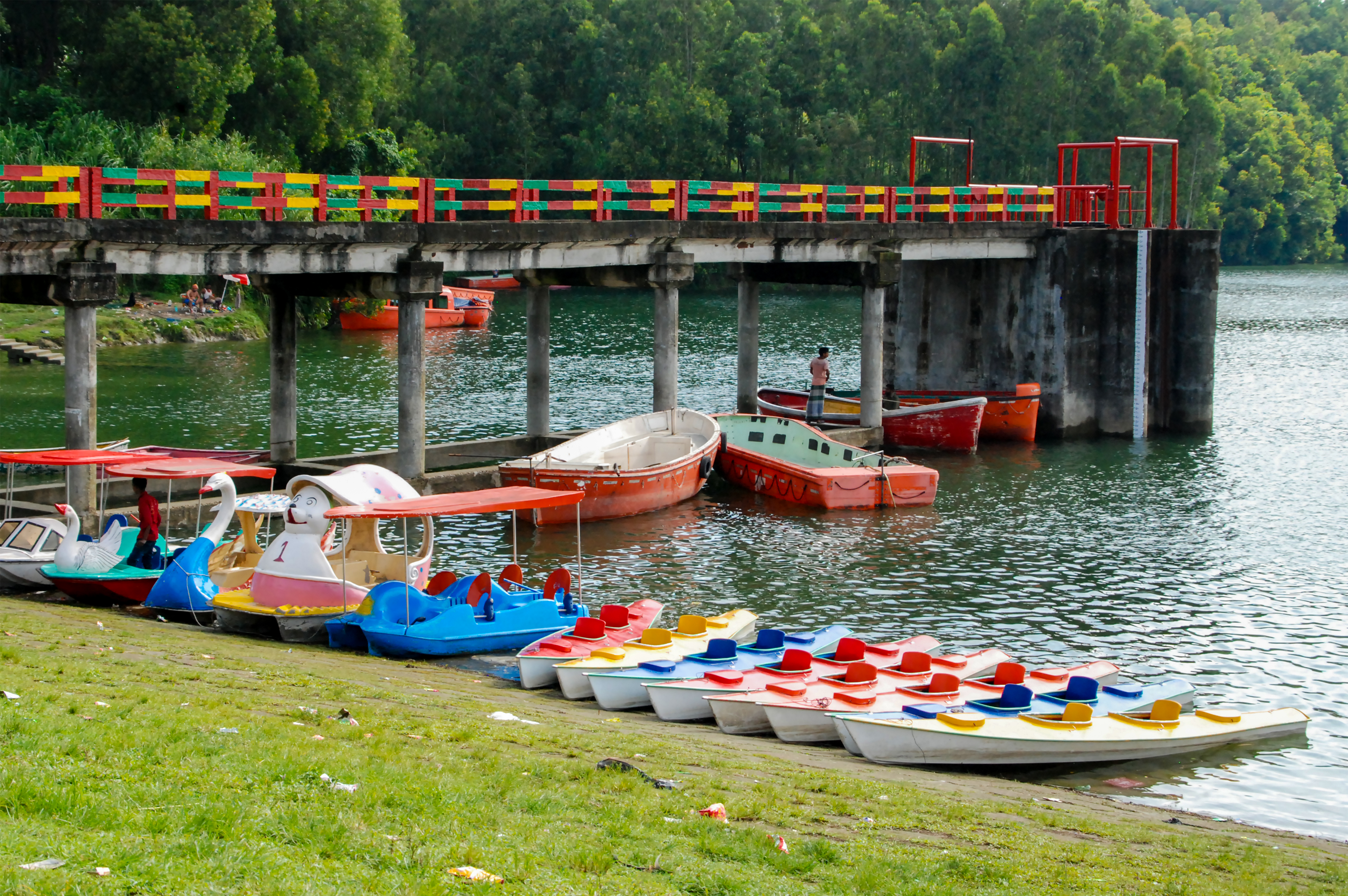 Mohamaya Irrigation Dam Bridge, Durgapur Union, Mirsharai Upazila, Chittagong.